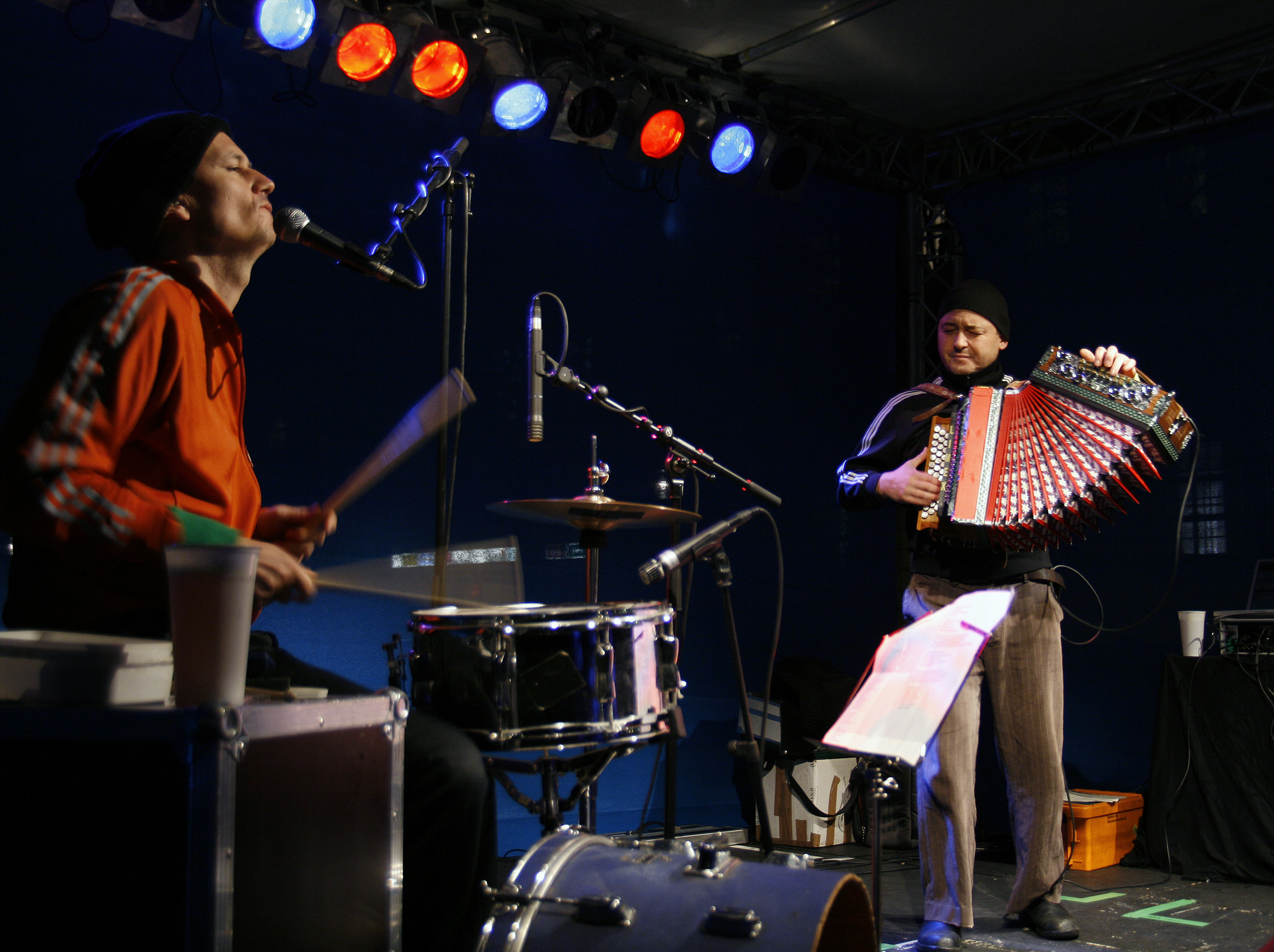 Austrian musical duo Attwenger; concert at the opening of the 'Winter at the MuseumsQuartier' (Vienna, Austria).